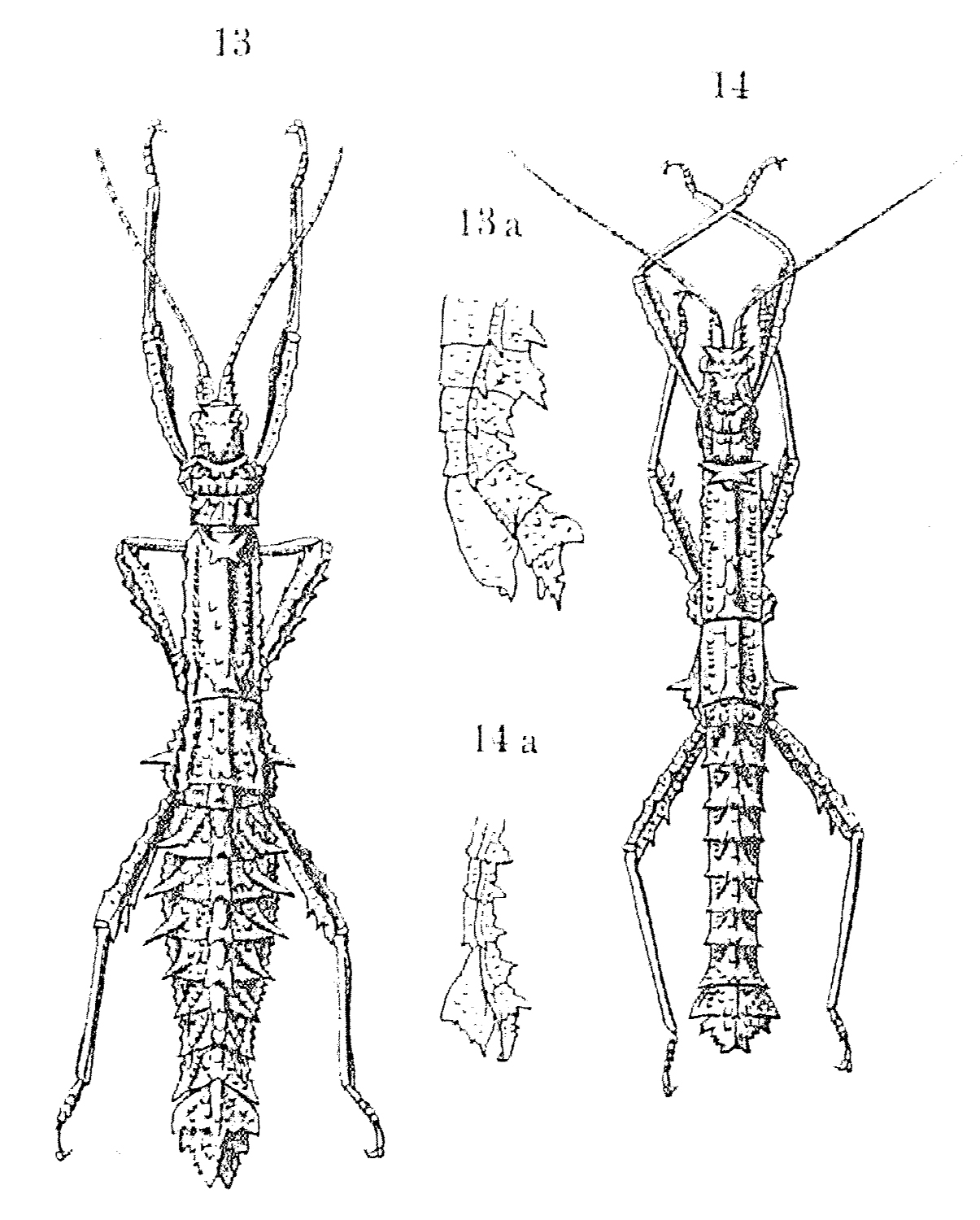 Picture of Pylaemenes coronatus from Redtenbacher 1906; female left (pict. 13), male right (pict. 14)